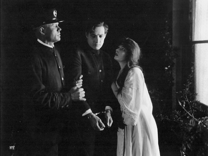 The Heart of Nora Flynn is a 1916 American silent drama film directed by Cecil B. DeMille. This is a scene from the film.